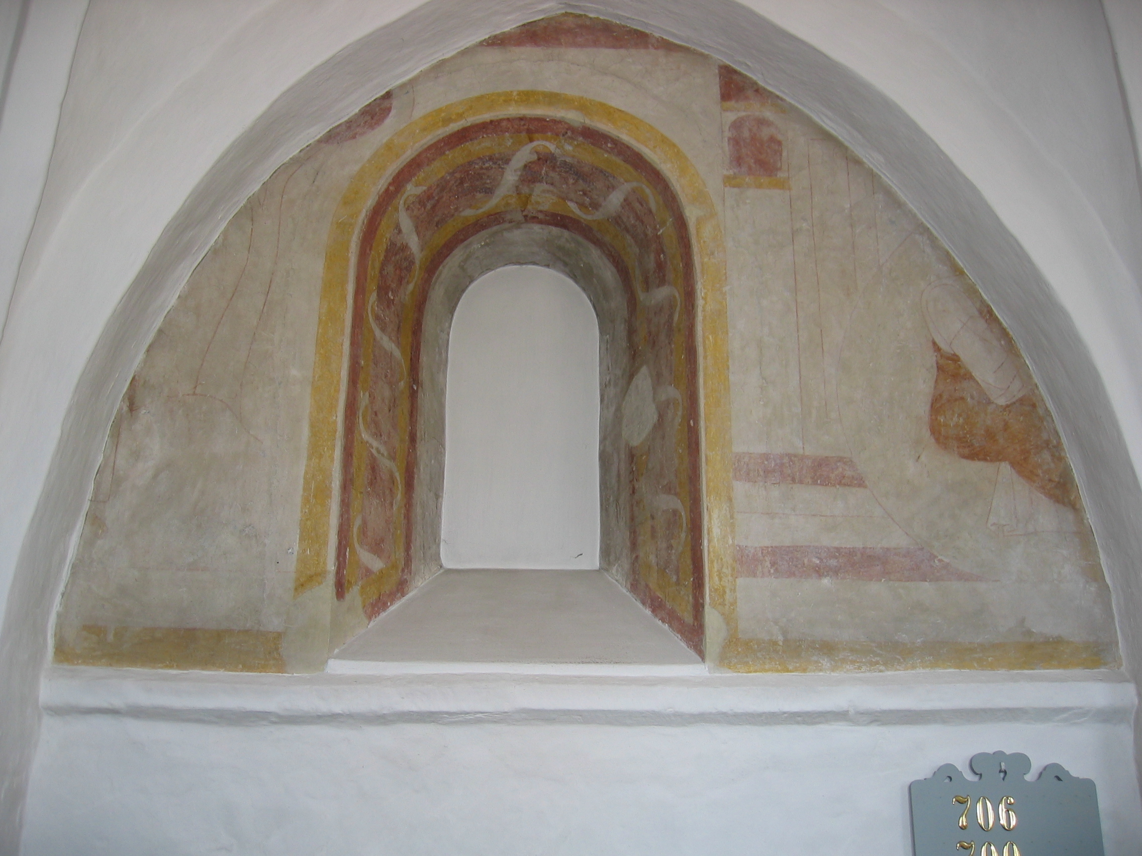 Vejby Church, Vejby parish, Holbo Herred, Frederiksborg County, Denmark.